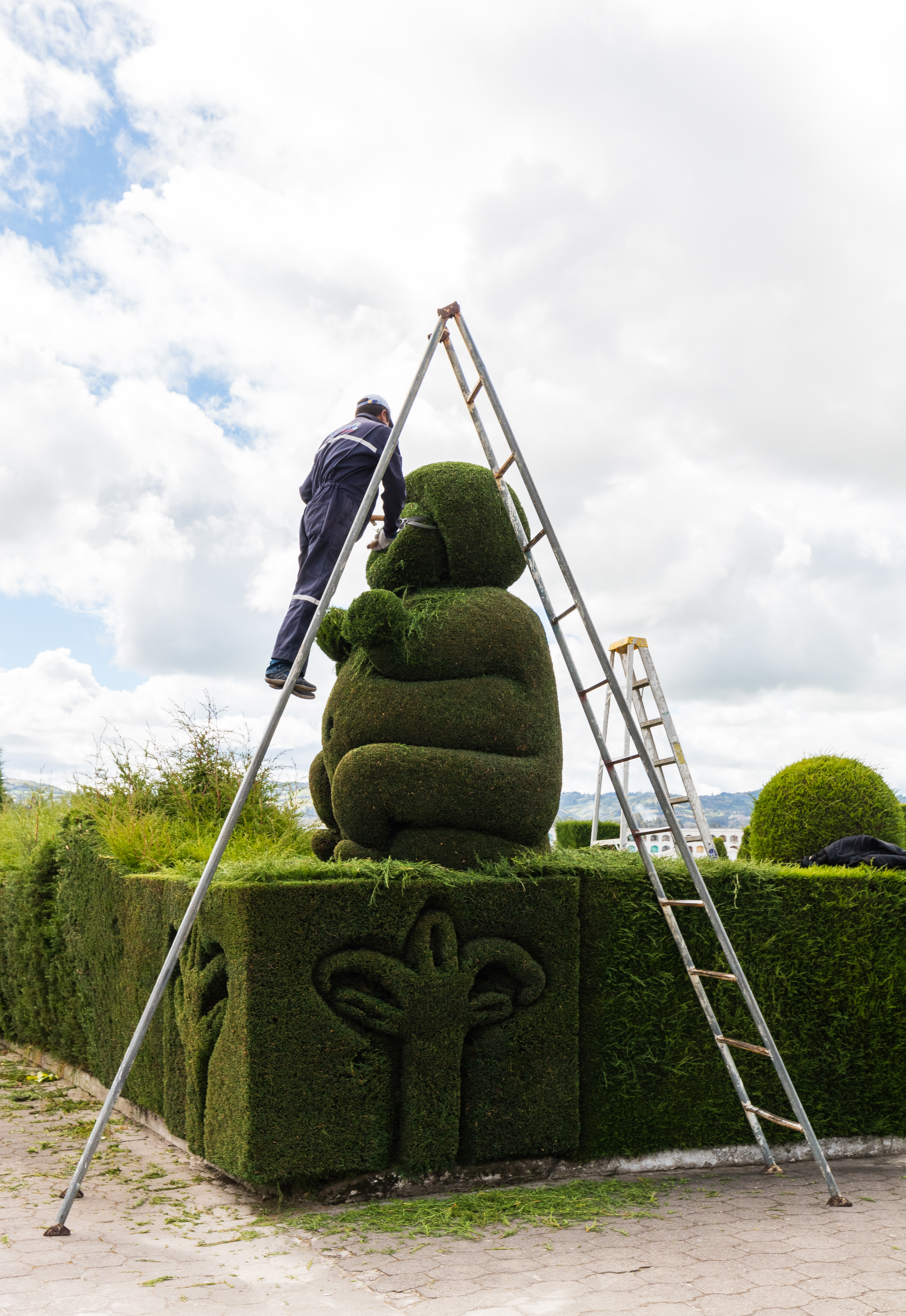 Cemetery, Tulcán, Ecuador